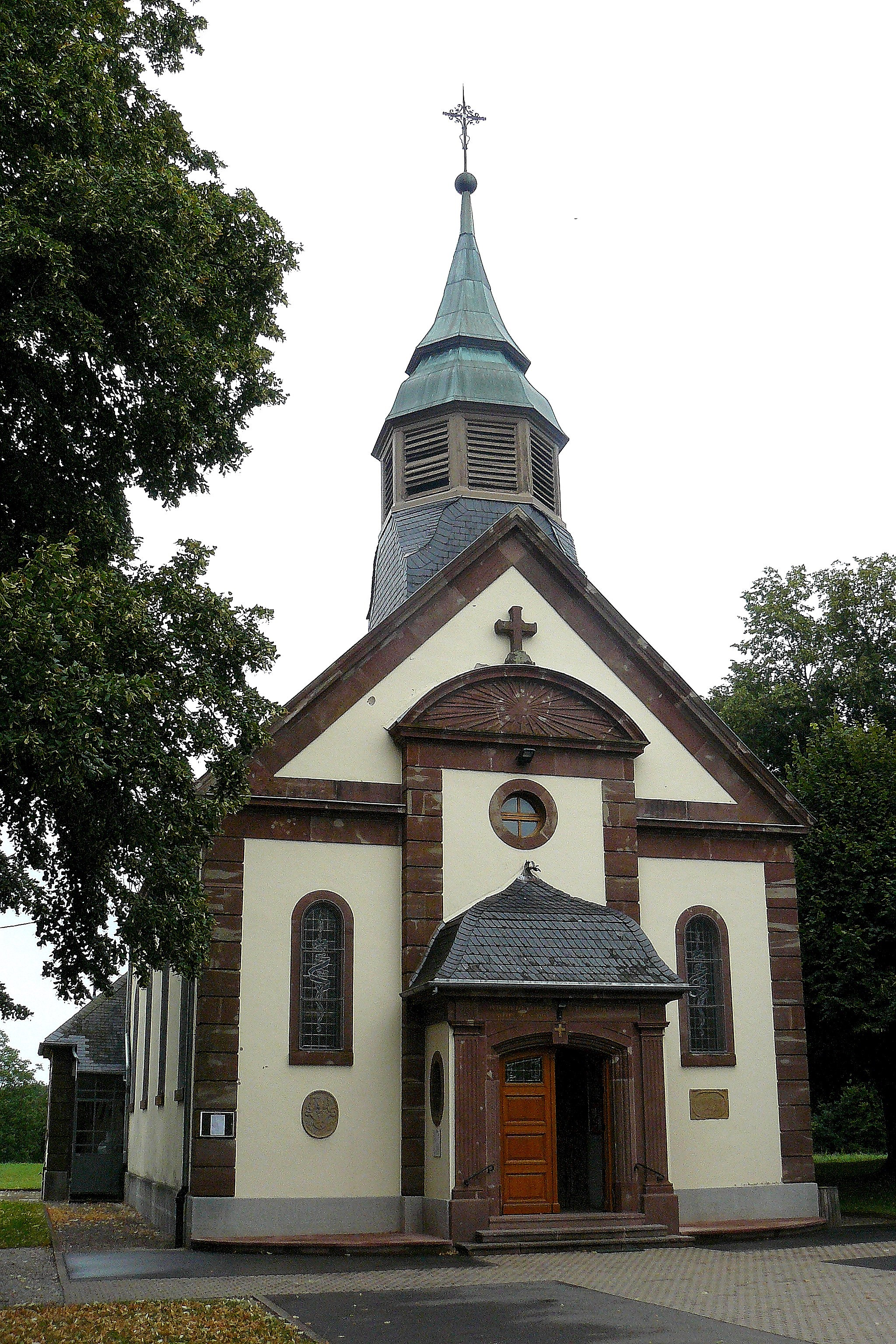 The chapel of Our Lady of Grunenwald (Haut-Rhin, France) as by now (rebuilt 1930-1933)